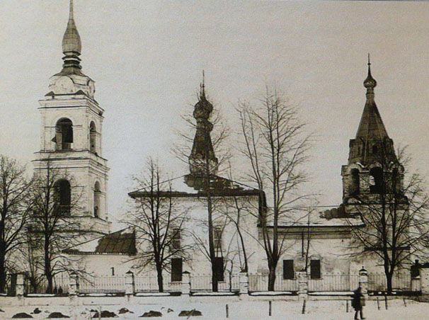 Church of the Vladimir Theotokos in Yaroslavl (1678)